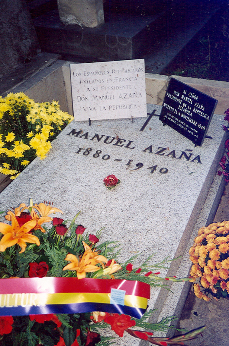 Tomb of Manuel Azaña Diaz (1880-1940) in Montauban, France. Manuel Azaña was President of the Second Spanish Republic. The tomb is in the old cemetery of Montauban, specifically at Trapeze Q, Section 7